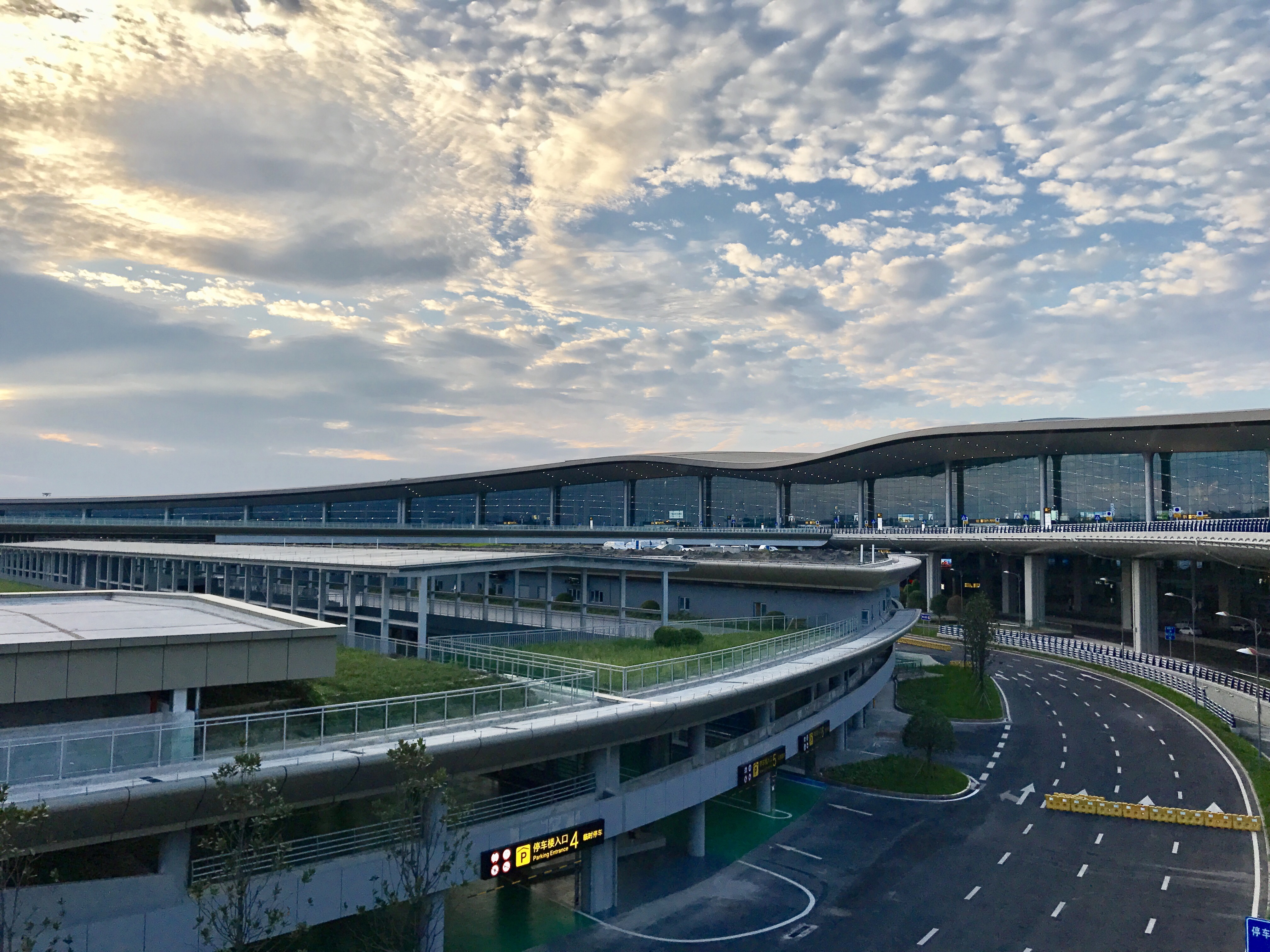 Departure Level of Terminal 3 of Chongqing Jiangbei Airport.